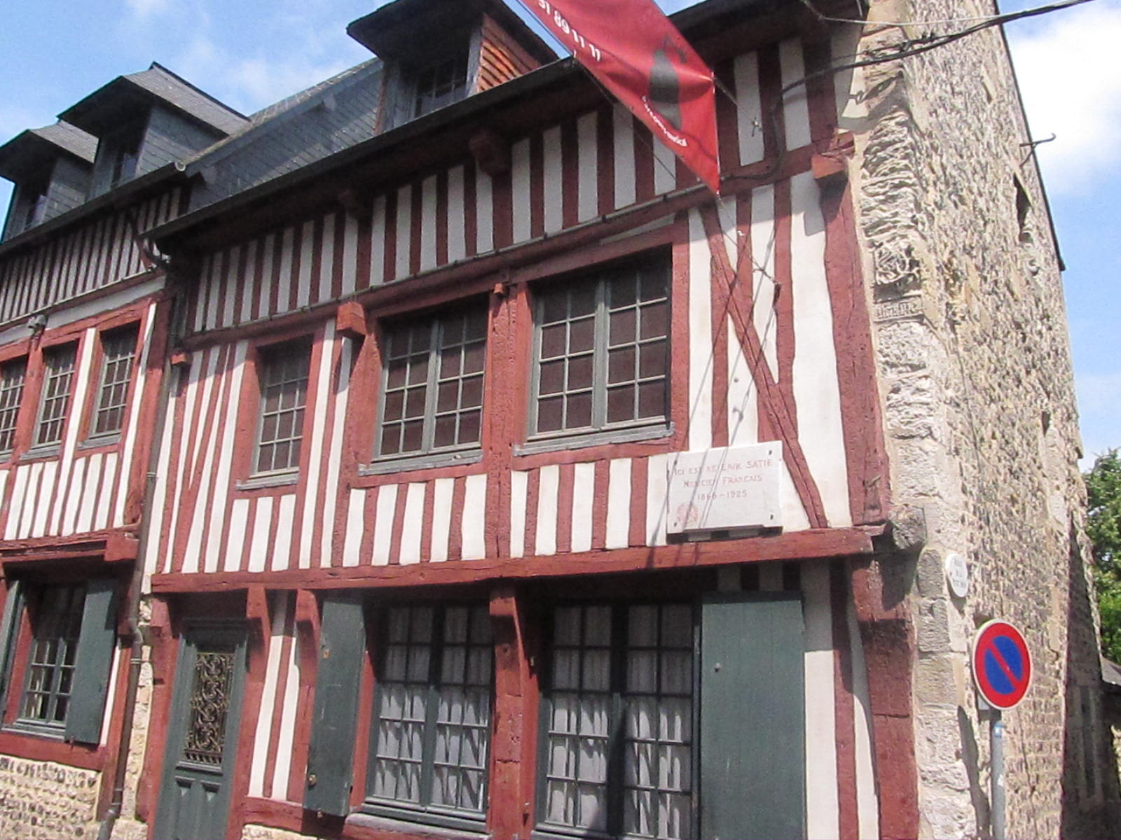 Birthplace of Erik Satie